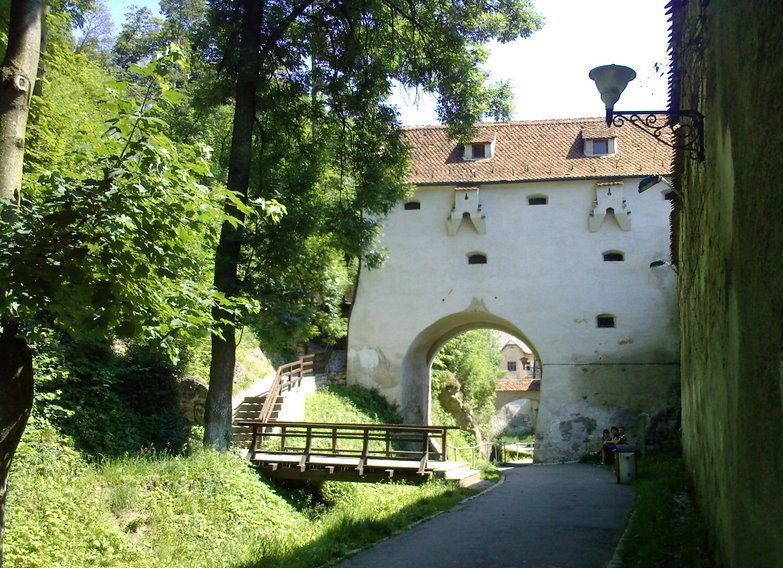 The Behind the Walls Street, Braşov